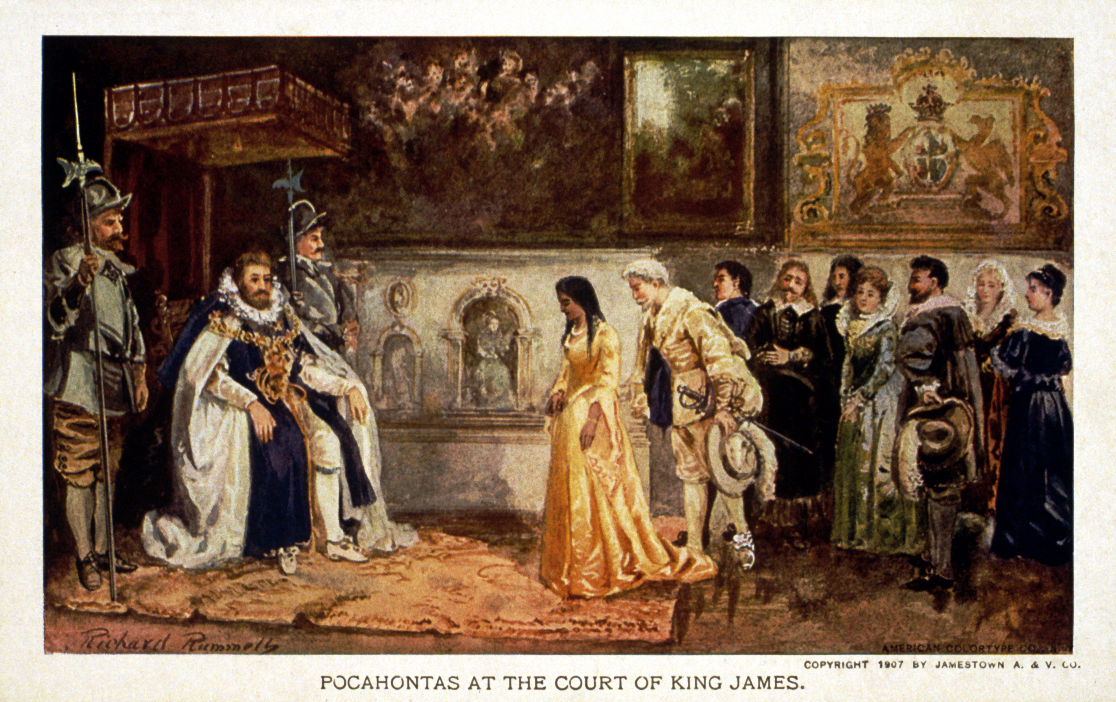 Pocahontas in the court of James I of England. Postcard published by the Concessionaire, The Jamestown Amusement & Vending Co., Inc.